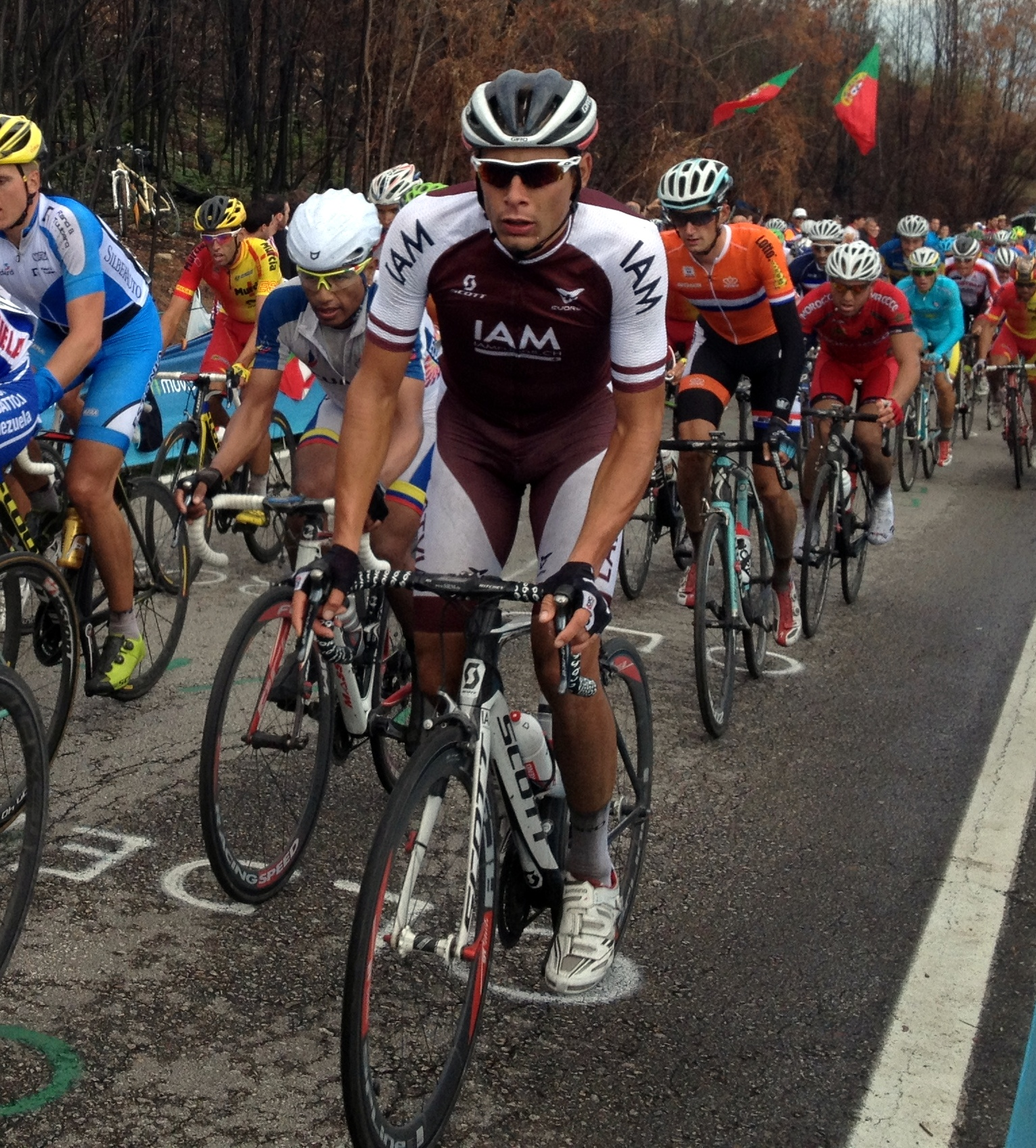 Aleksejs Saramotins - Ponferrada 2014